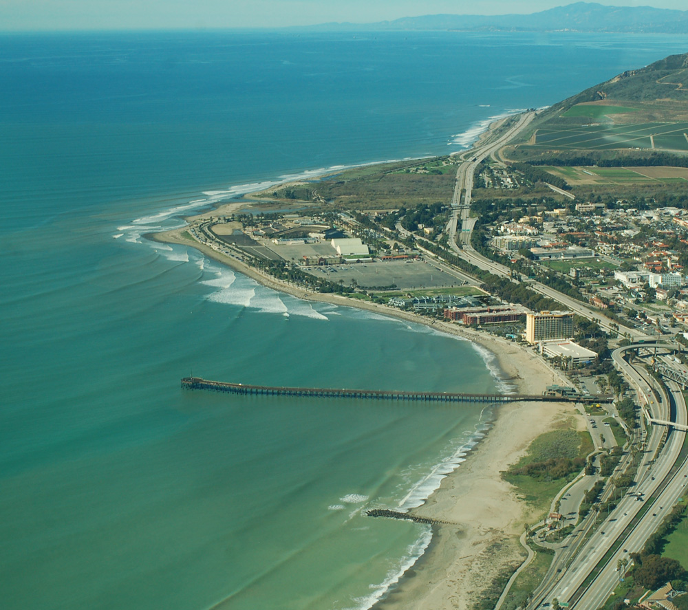 An aerial view of Ventura, California.